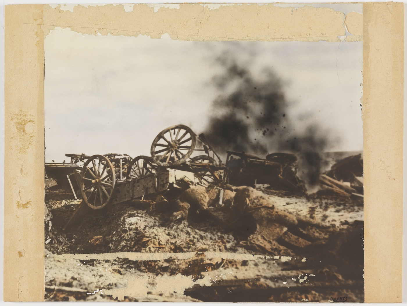 Format: Hand-coloured photograph from an exhibition of war photographs in natural colour produced by Colart's Studios, Melbourne, in the 1920s. Notes: Find more detailed information about this photographic collection: .au/item/itemDetailPaged.aspx?itemID=126525 From the collection of the State Library of New South Wales